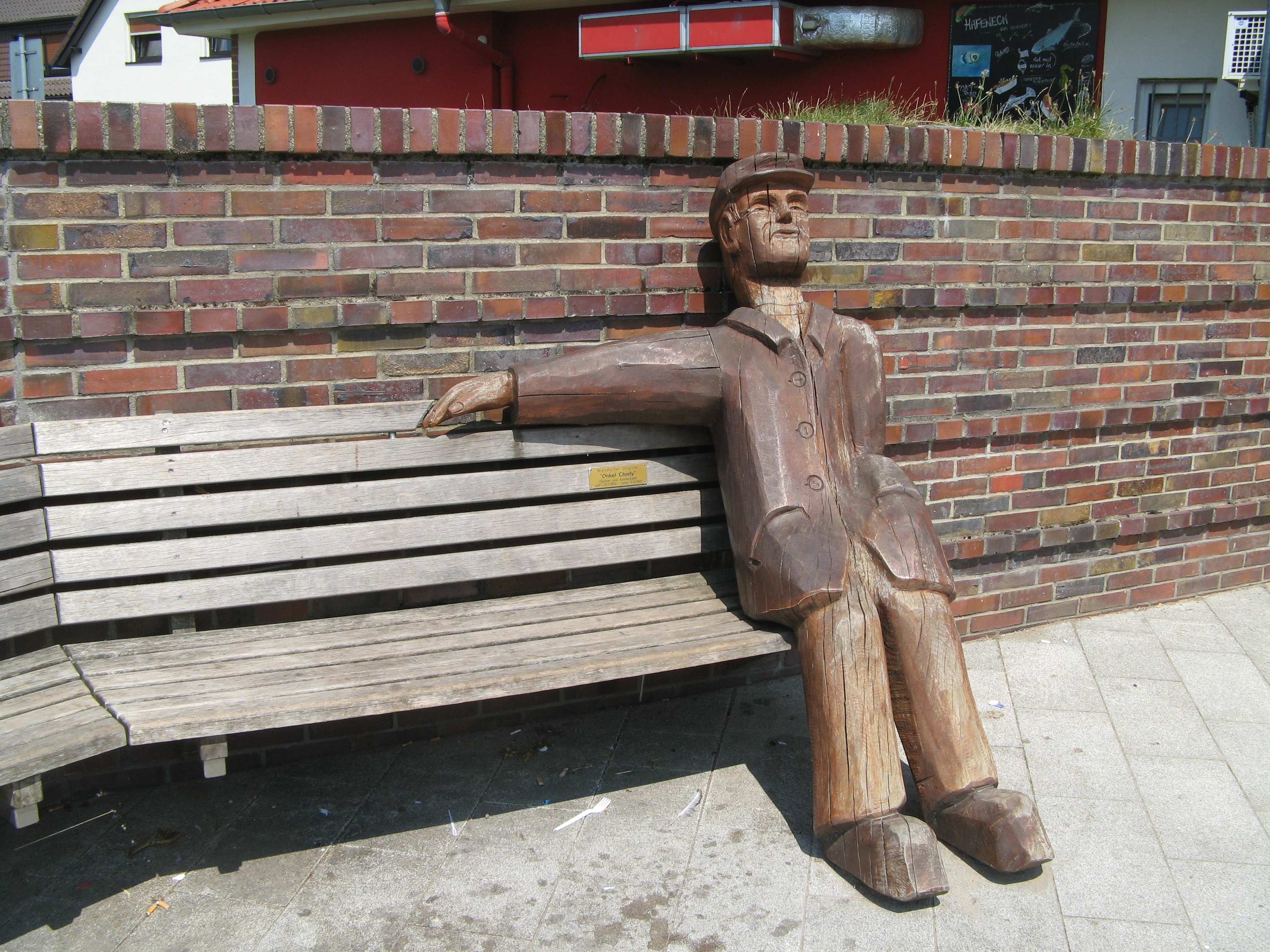 Niendorfer Hafen - Onkel Charly (Niendorfer original, fishermen and guests sailors, * 1900 - † 1987), Sculpture by Wolfgang Gerthagen